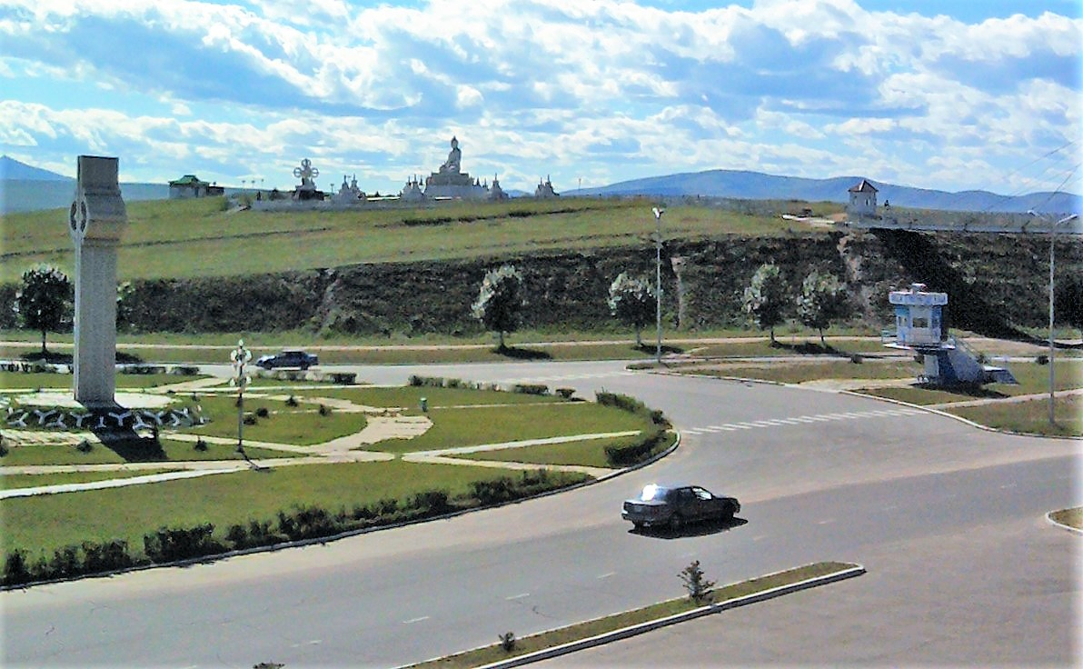 Buddha complex in Darkhan city